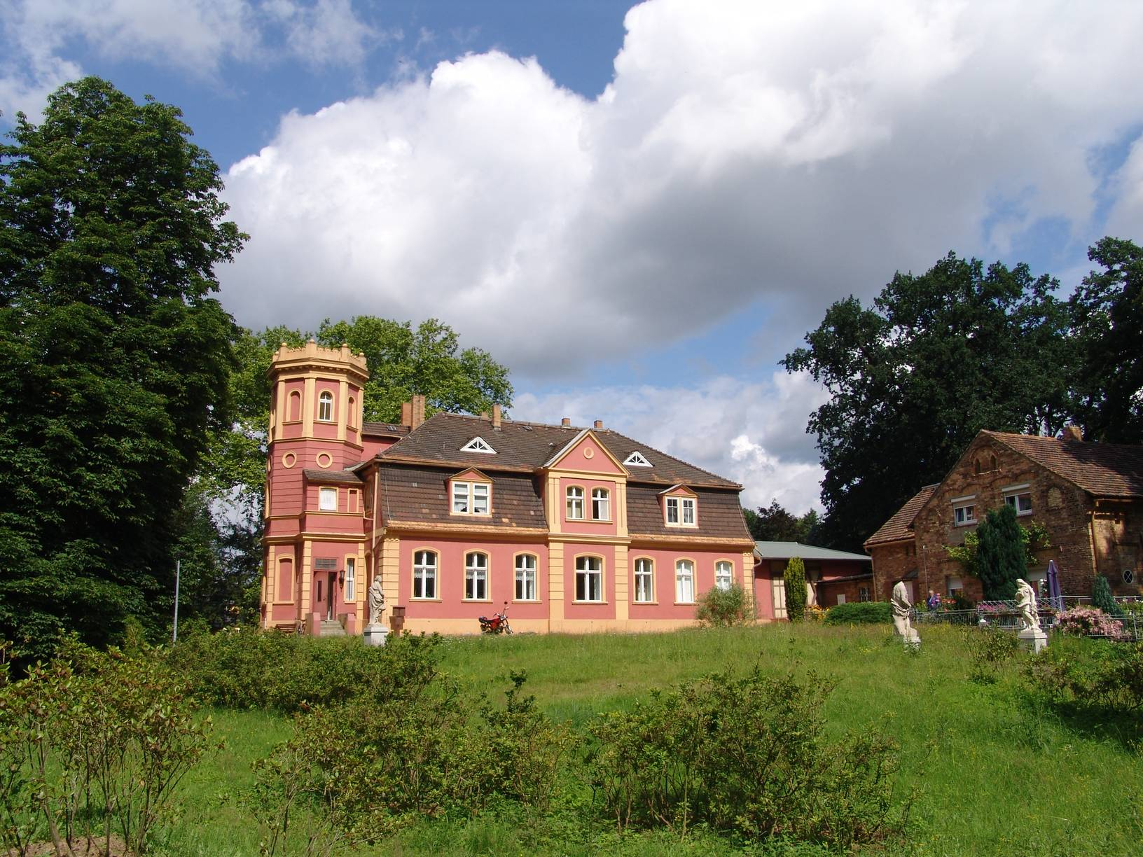 Schloss Kromlau (Rückansicht) This is a photograph of an architectural monument.